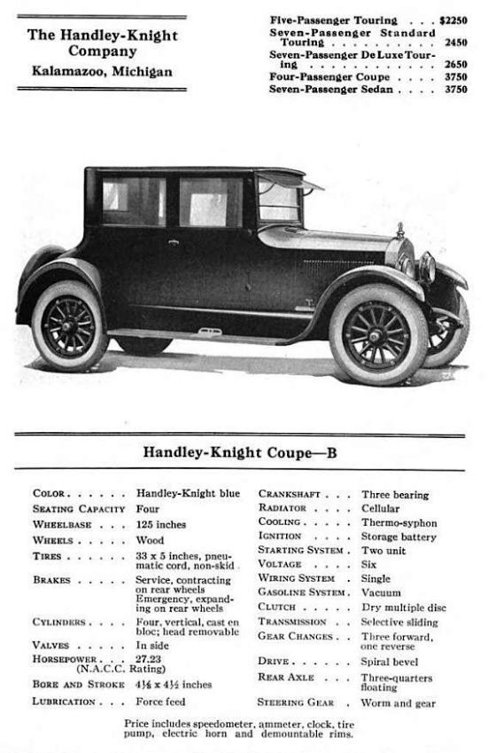 Handley-Knight Model B 4-passenger "Coupe-Sedan" 1922 data sheet